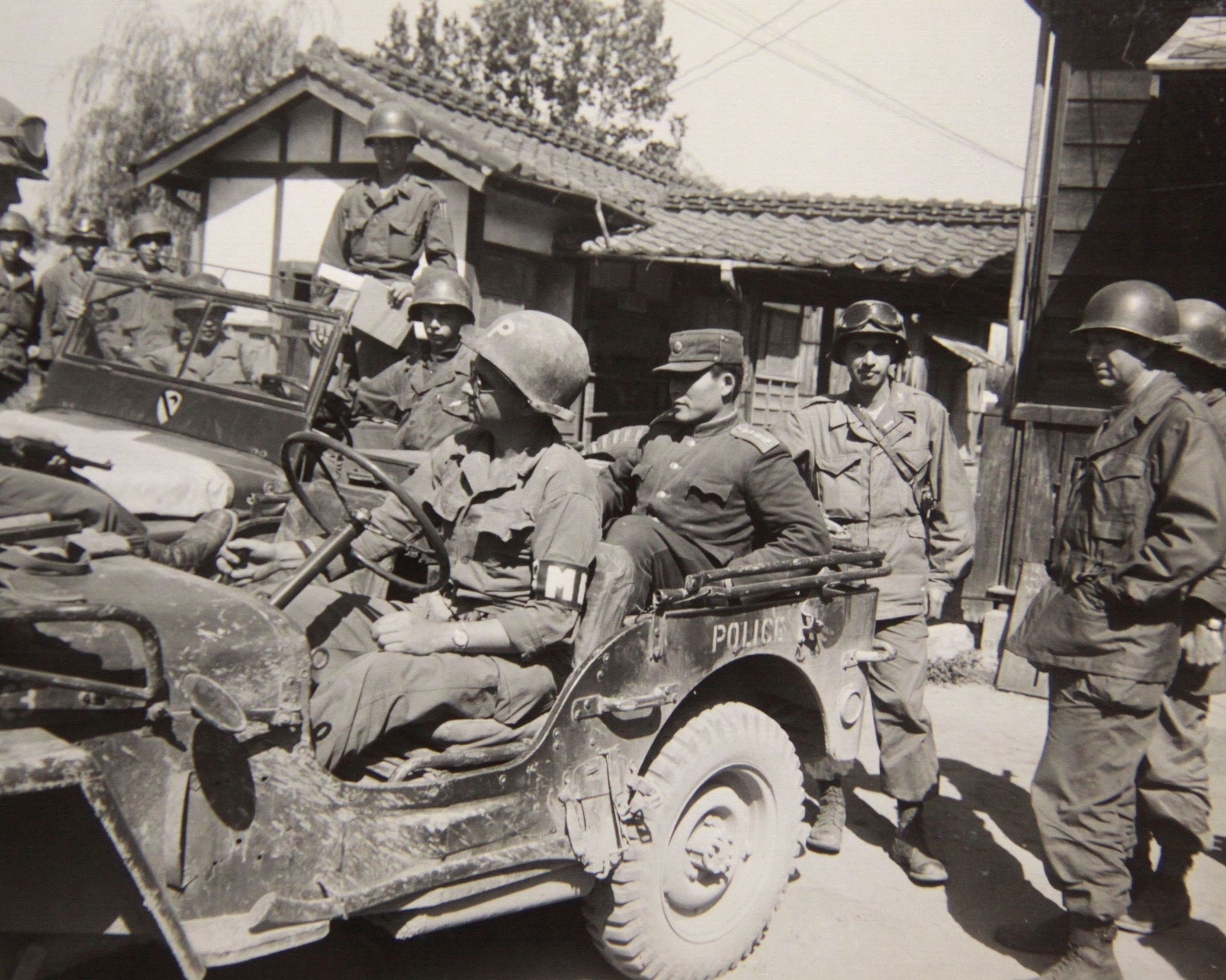 Senior Colonel Lee Hak Ku, Chief of Staff of the Korean People's Army 13th Division.